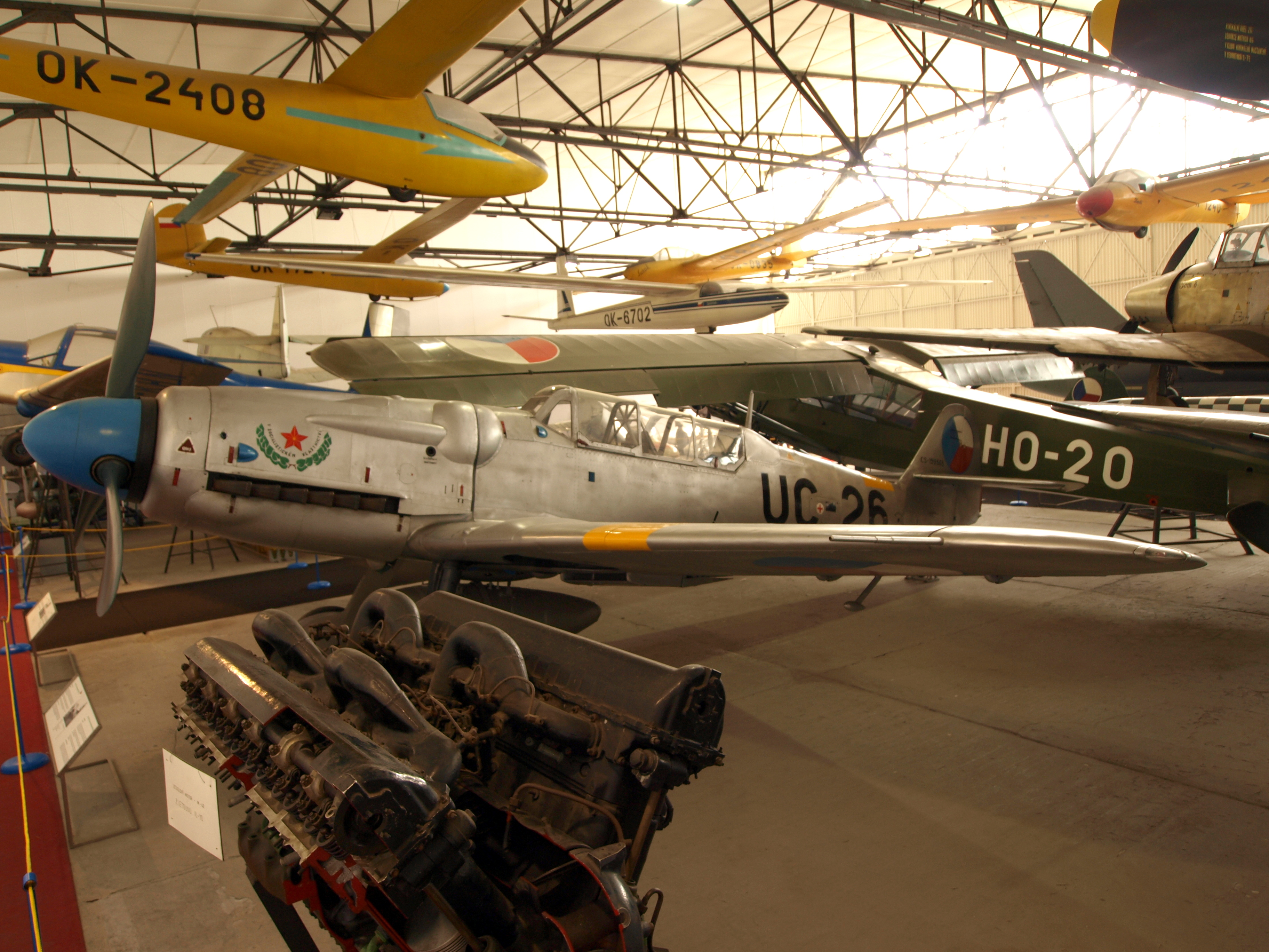 Avia CS-199 (UC-26) (Czech version of Messerschmitt Bf 109G-12. Photograph taken without a tripod (was not allowed!).